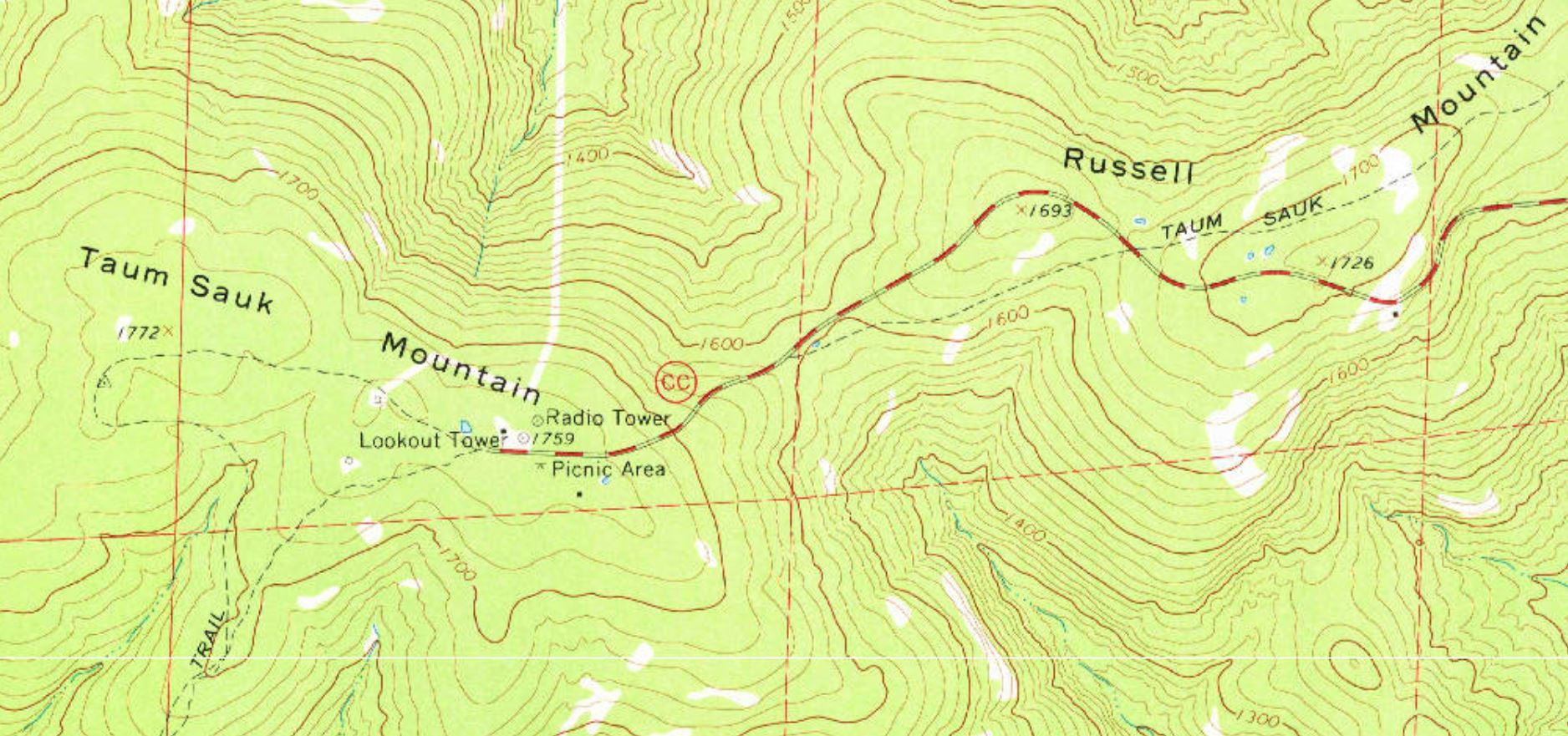 Portion of the USGS Topographic map of the Taum Sauk area St Francis Mountains, Missouri